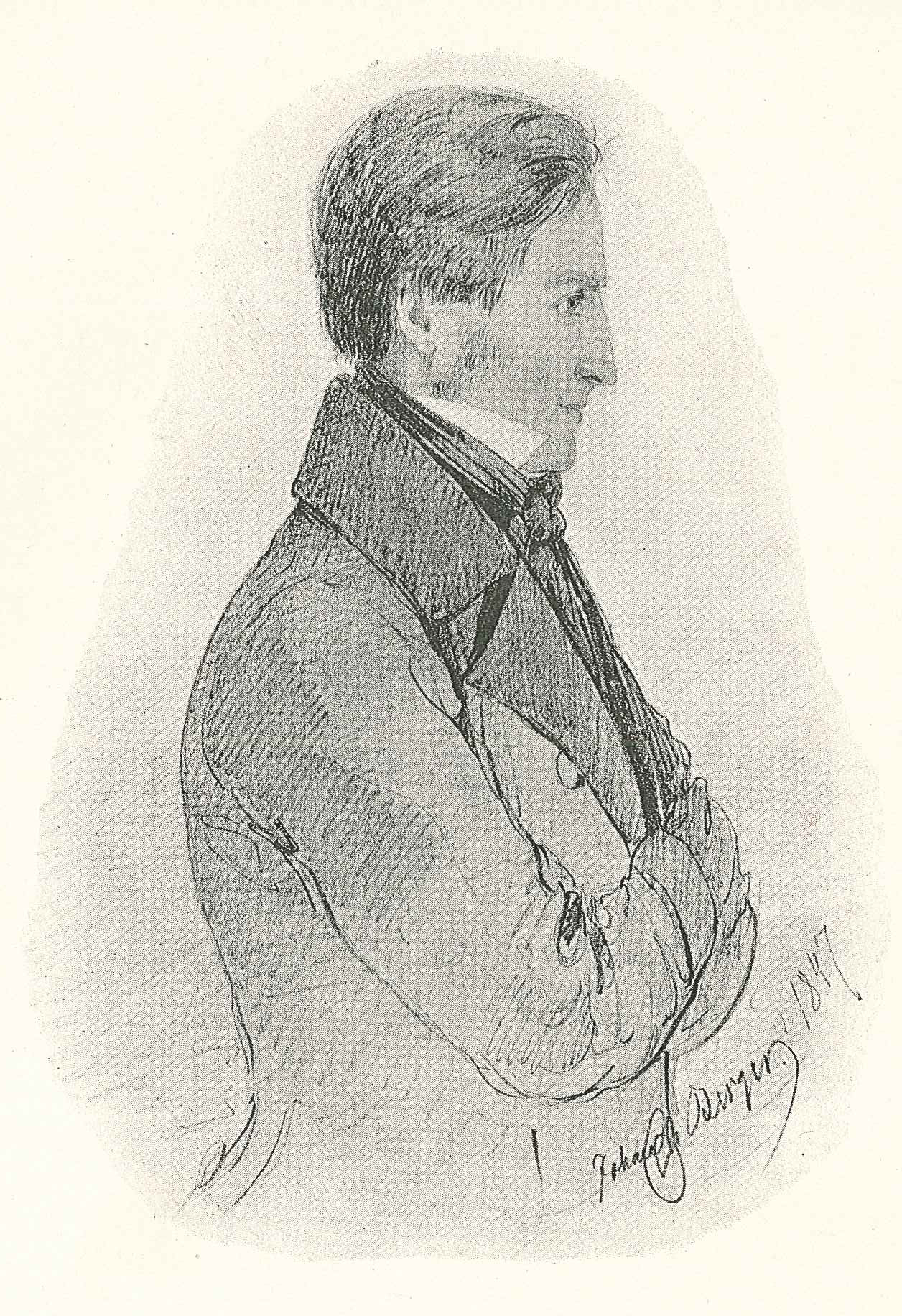 Peter Wieselgren (1800-1877), Swedish clergyman and leading person within the temperance movement.